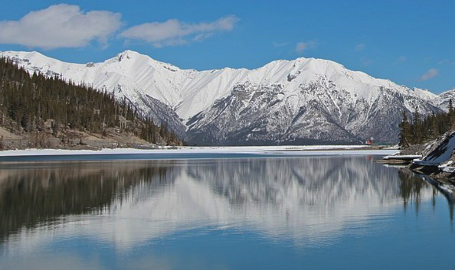 Mount Charles Stewart reflected in Whiteman's Pond. Alberta Canada